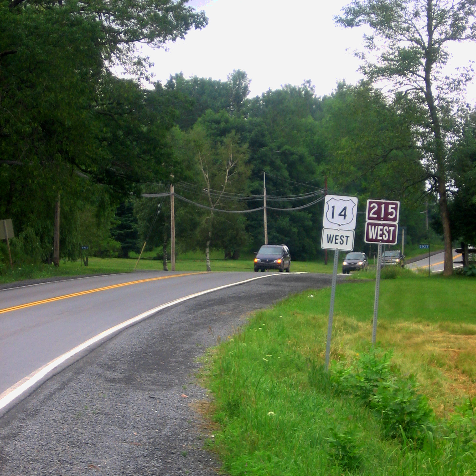 Photo of sign for NS Rote 215 in Brooklyn, Hants County showing portion of the highway duplexed with Trunk 14.